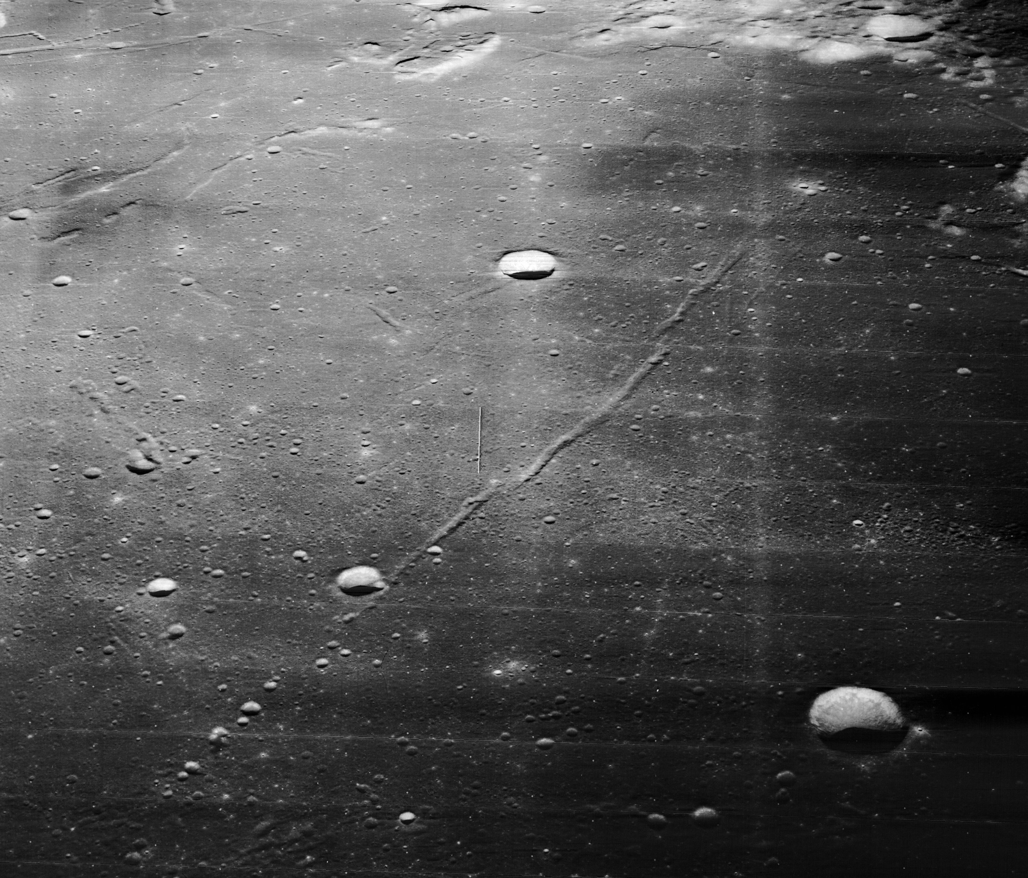 Oblique view of Rima Messier, on the moon, facing west. Secchi X crater is above center, and Secchi K crater is in lower right.